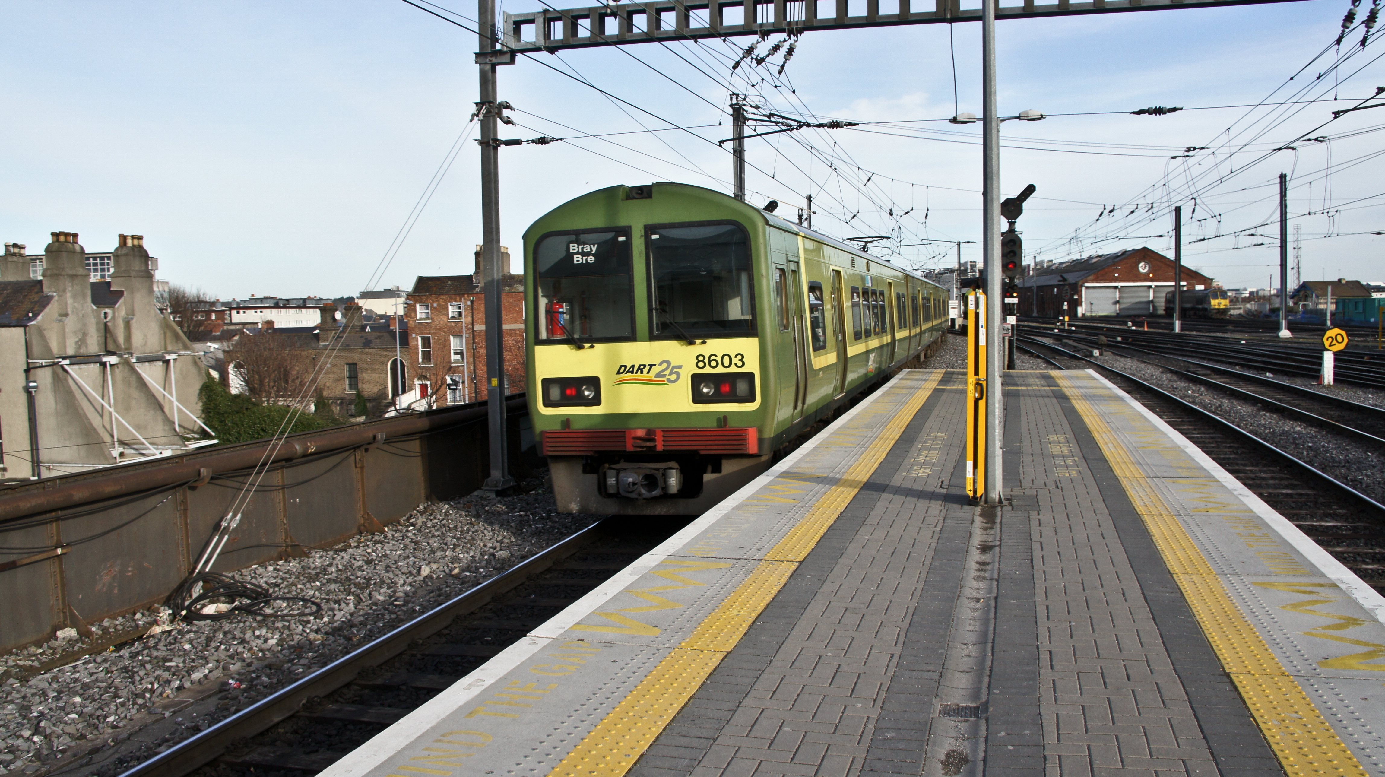 Dublin Connolly, commonly called Connolly station (previously named Amiens Street Station) is one of the main railway stations in Dublin and is a focal point in the Irish route network. The ornate station facade has a distinctive Italianate tower at its centre. Situated on the north side of the River Liffey, the station provides intercity and commuter services to the north, northwest and southeast of the island. The north-south Dublin Area Rapid Transit (DART) service also passes through the station.